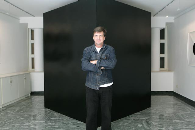 Orlando Mohorovic - installation 2010